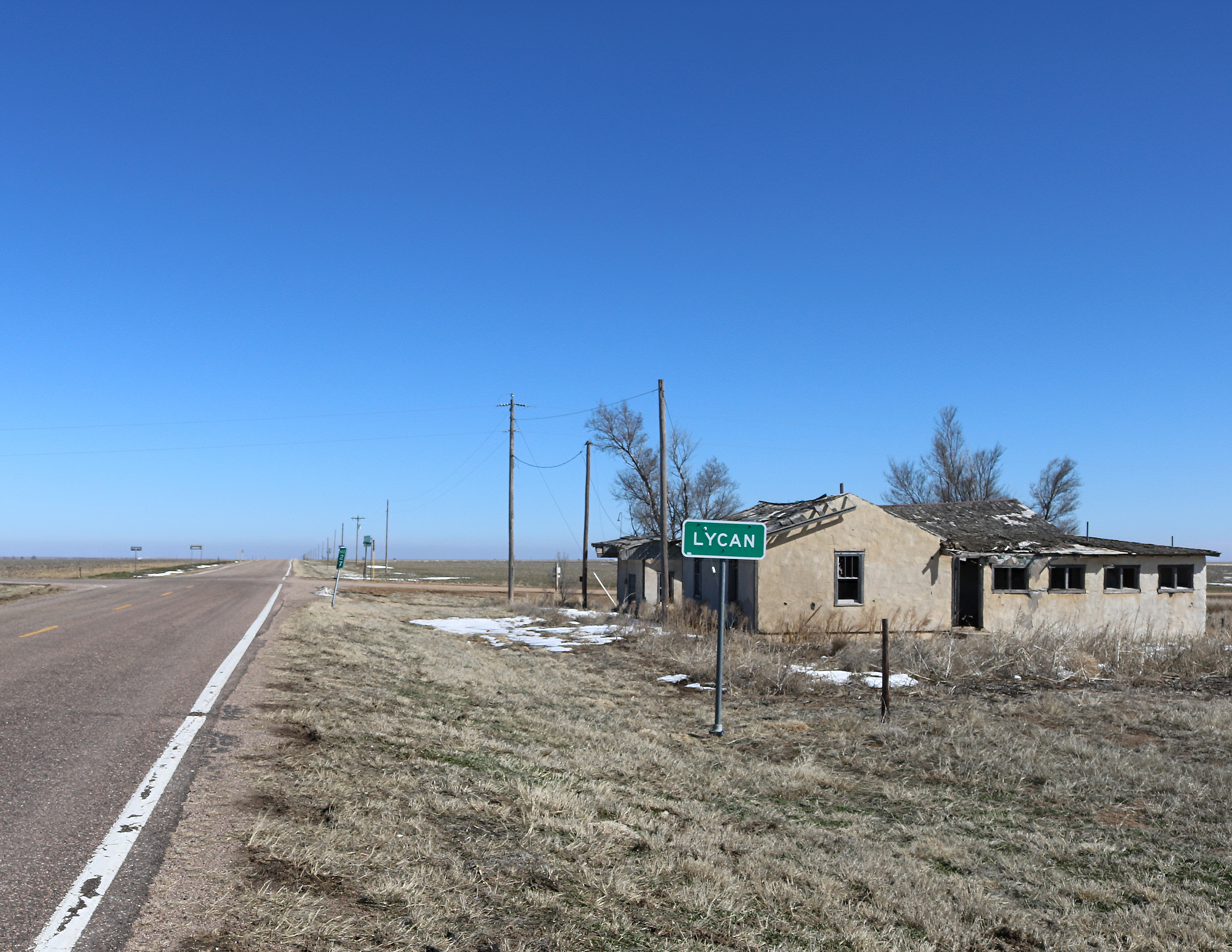 The community of Lycan, Colorado, in Baca County. The view is to the east along Colorado State Highway 116. At the intersection in the picture, Baca County Road 52 goes south (right), and Colorado State Highway 89 goes north. The intersection is the southern terminus of State Highway 89. Some sources call this community Buckeye Crossroads, but the signs along the highways call it Lycan.